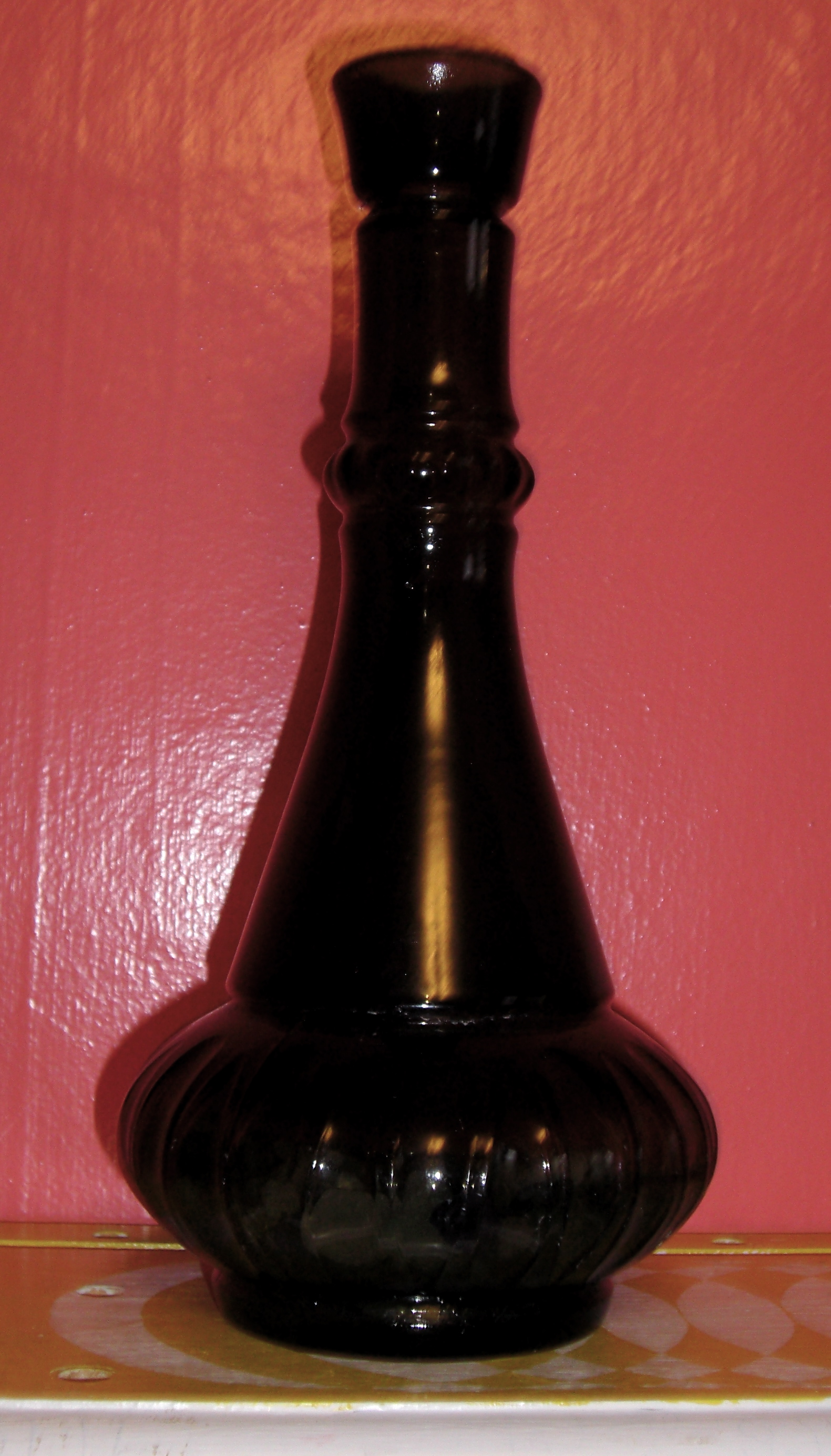 A 1970's glass genie bottle.